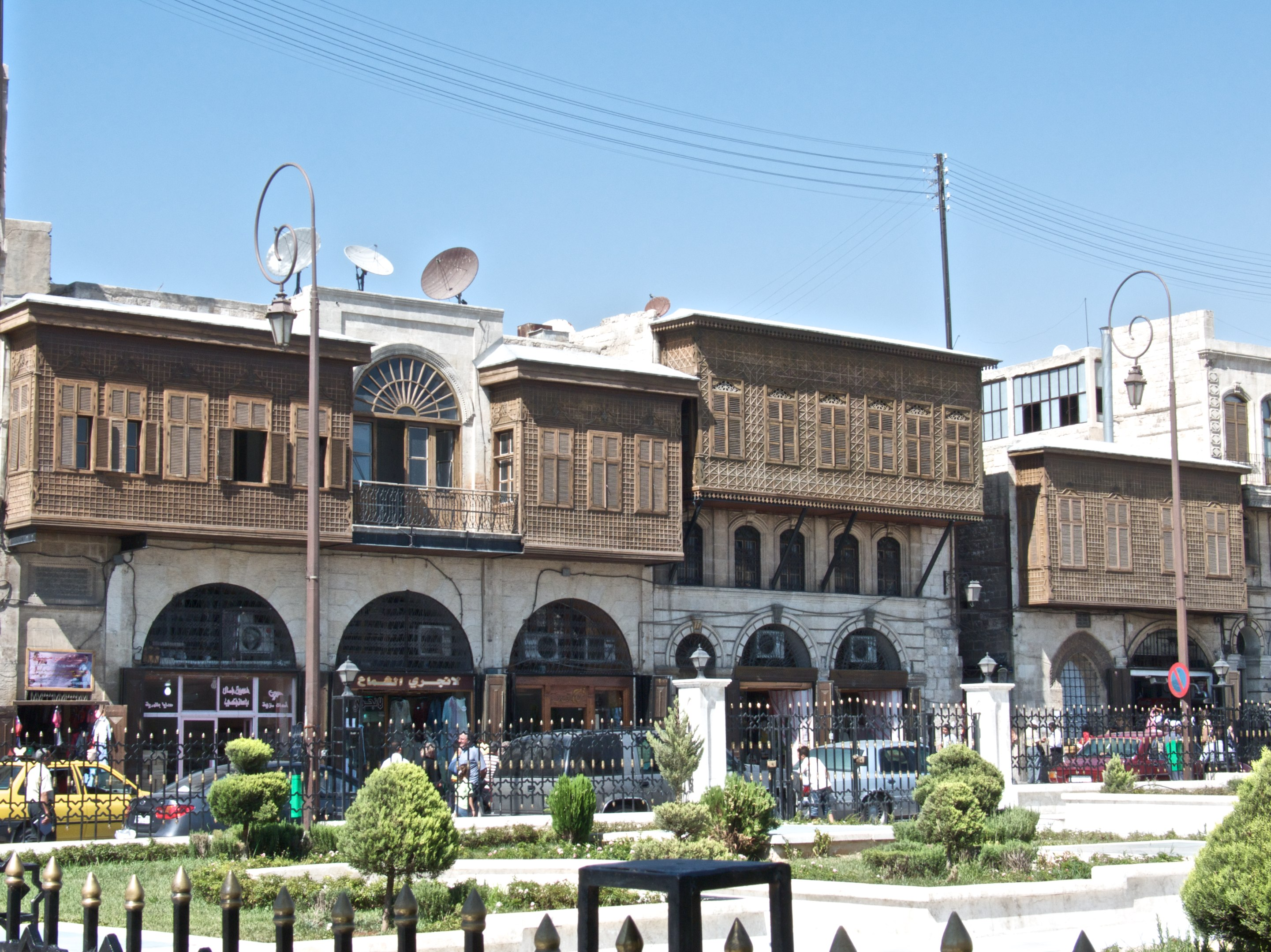 Old Aleppo